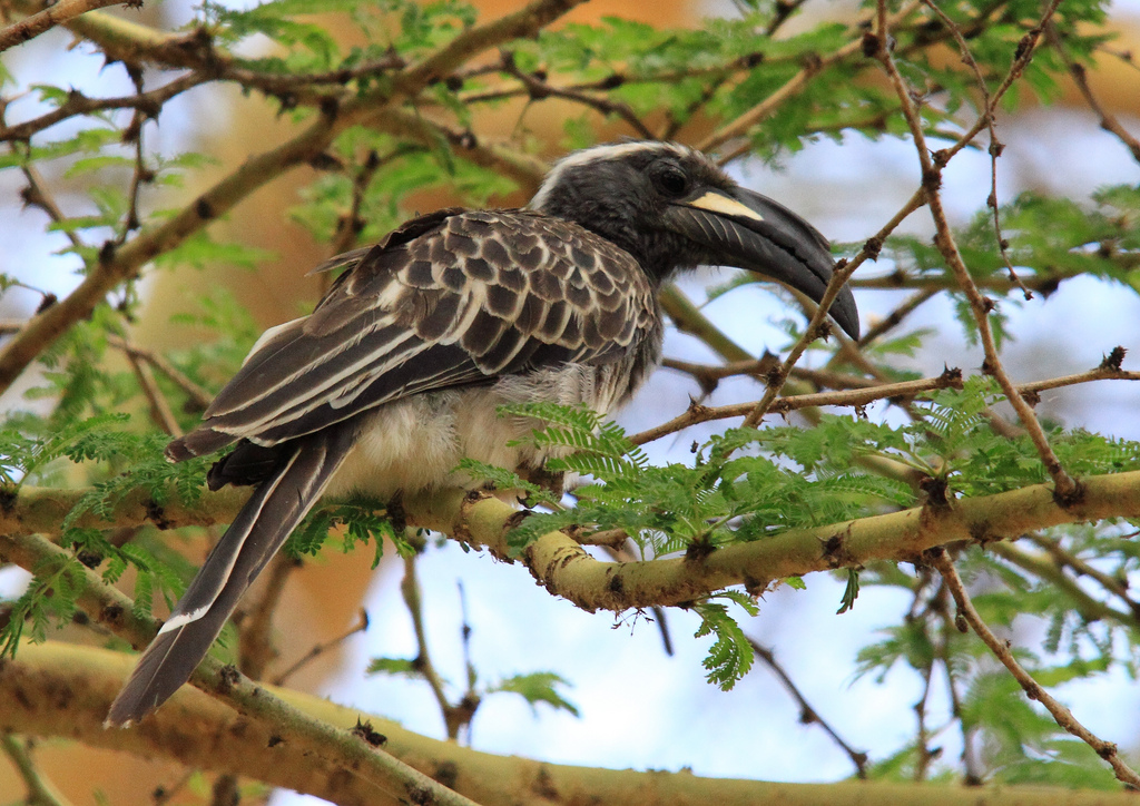 A male African Grey Hornbill near Crater Lake, Naivasha, Kenya.